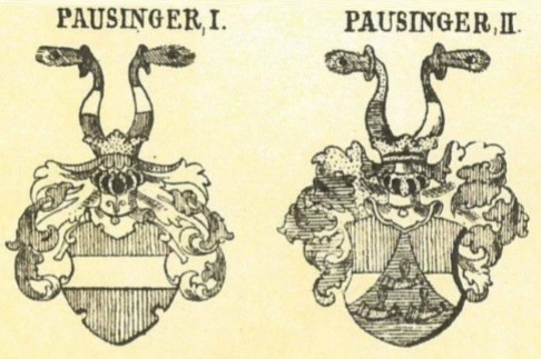 Arms of the von Pausinger family